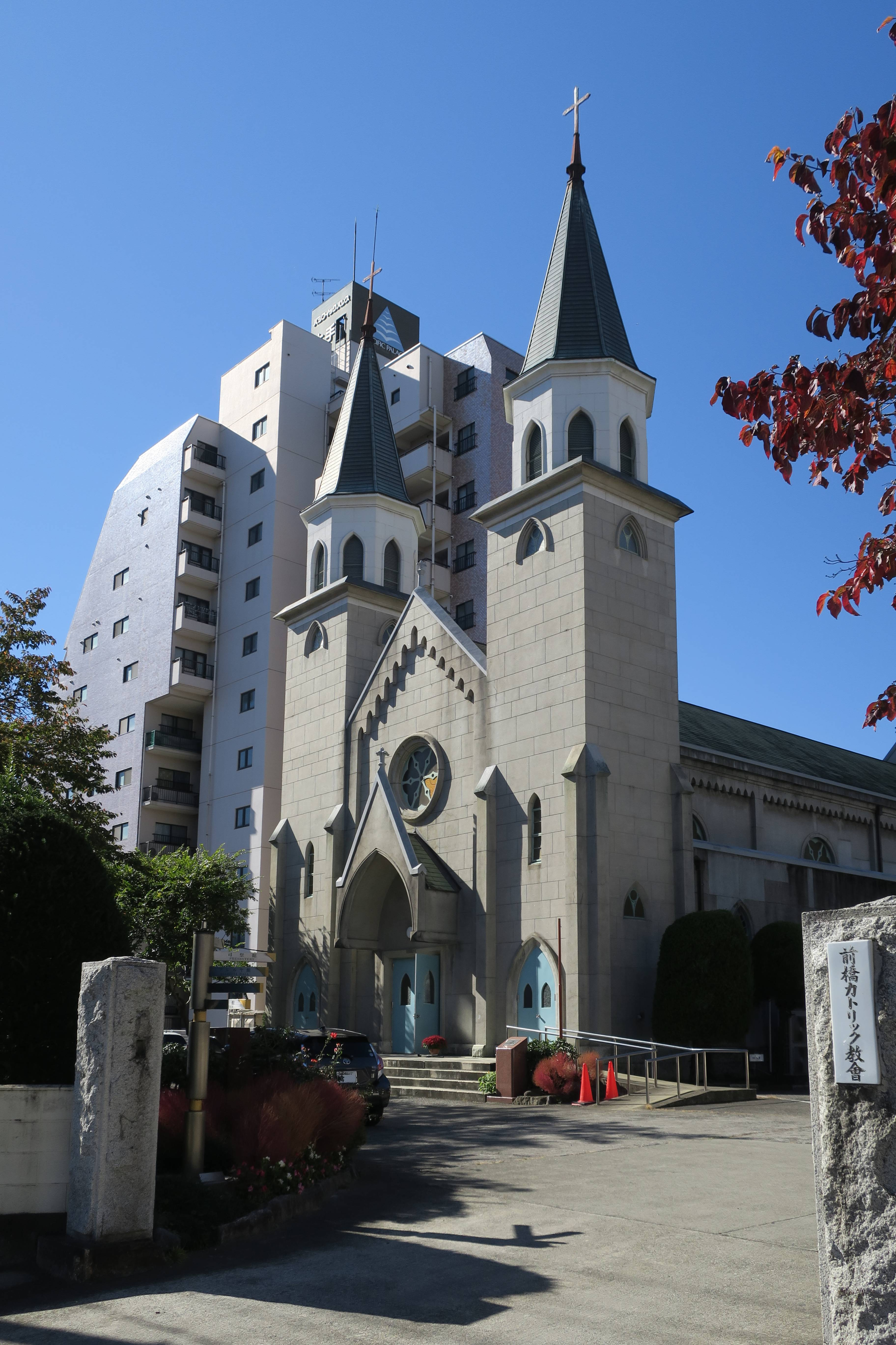 Catholic Maebashi Church.